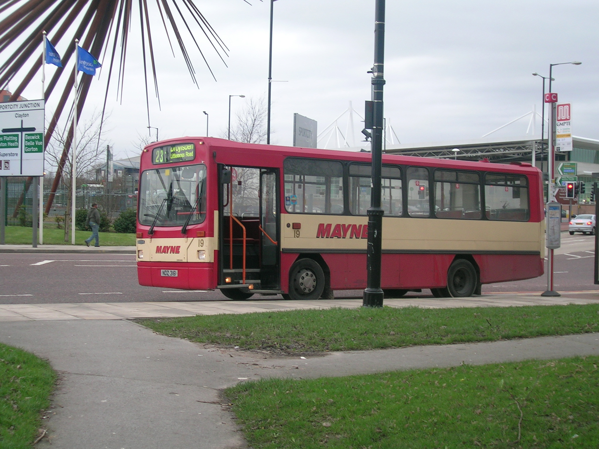 Maynes Buses bus 19, (reg. NDZ 3161), a 1993 Dennis Dart with Wright Handybus bodywork, pictured in January 2008 just days after the takeover of Maynes bus operations by Stagecoach. It was delivered new to London Buses Ltd as bus DW161 (reg. NDZ 3161), and was privatised as part of the London General fleet, before passing to Brighton & Hove Buses before arriving at Maynes. It passed to GHA Coaches (Vale Travel) in October 2008.